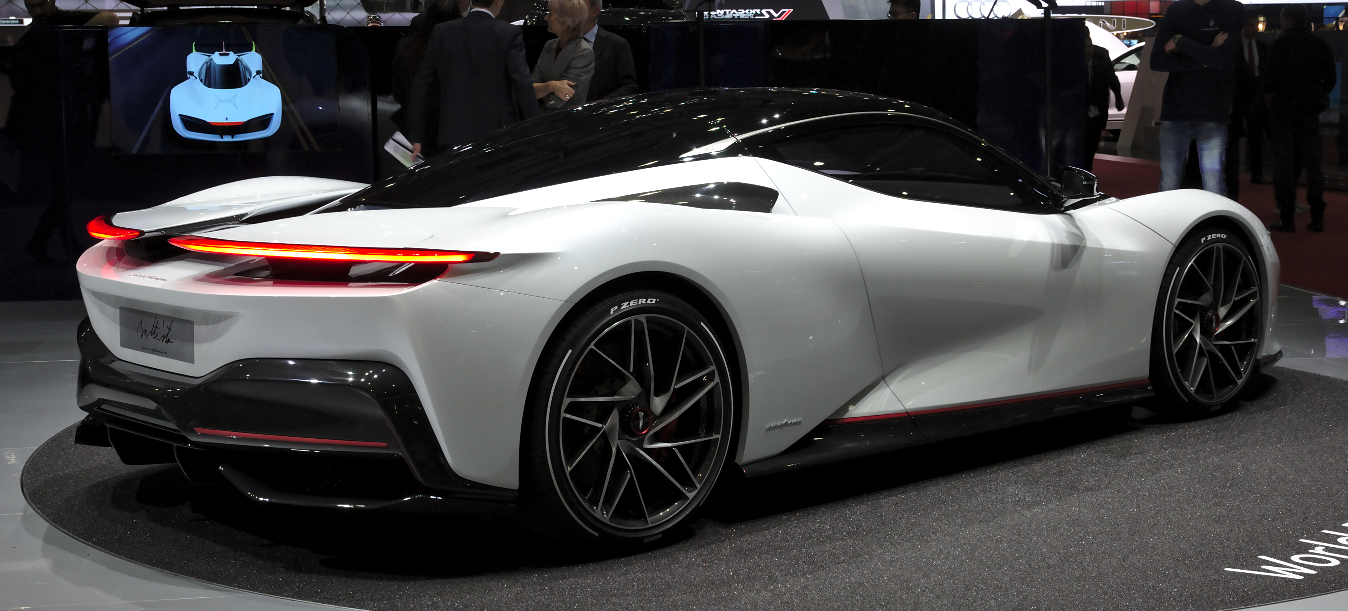 Pininfarina Battista at Geneva Motor Show 2019